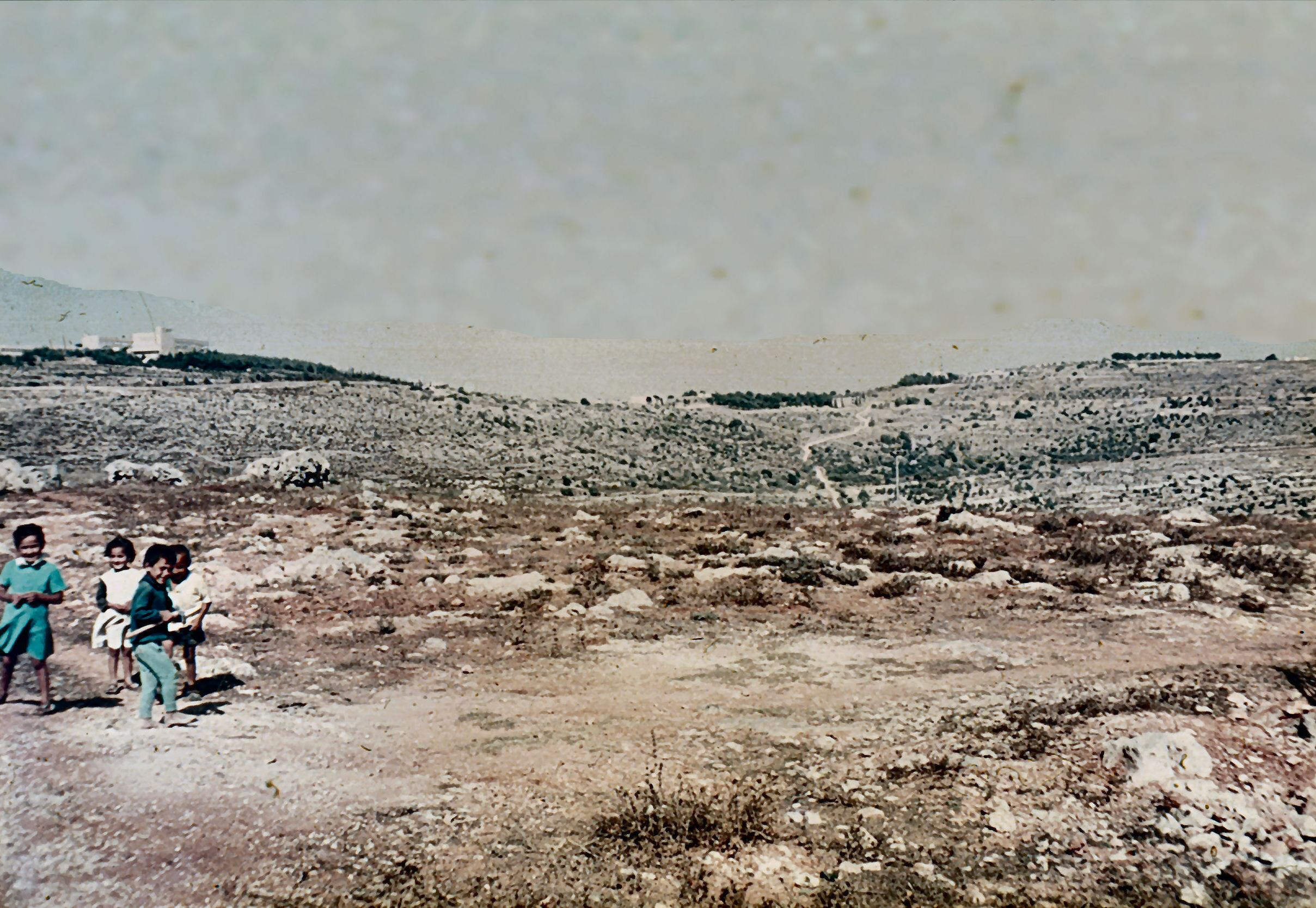 Granary__a_south_Mount_Hevron